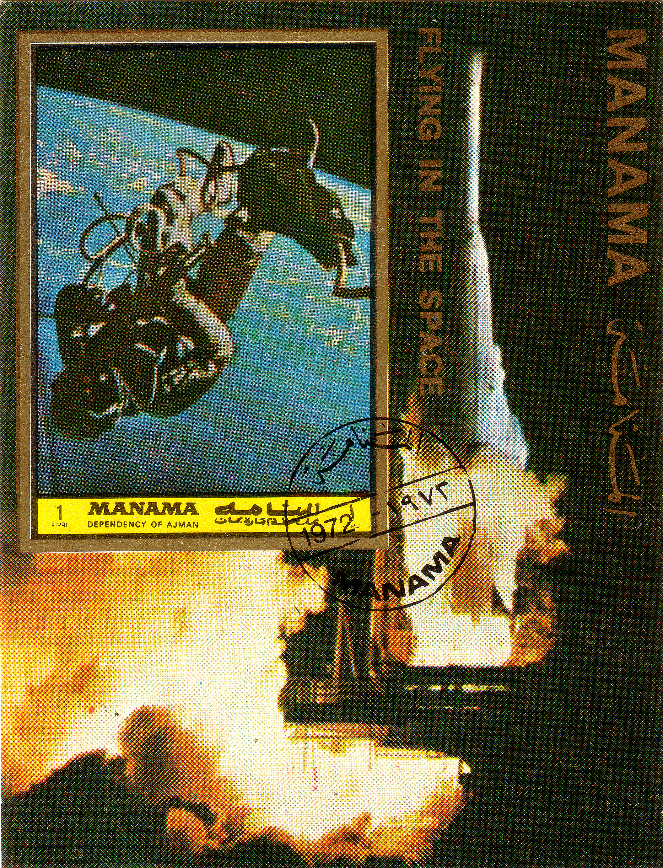 Postage miniature sheet of Manama, dependency of the emirate of Ajman (UAE), flying in the space, 1 riyal, 1972